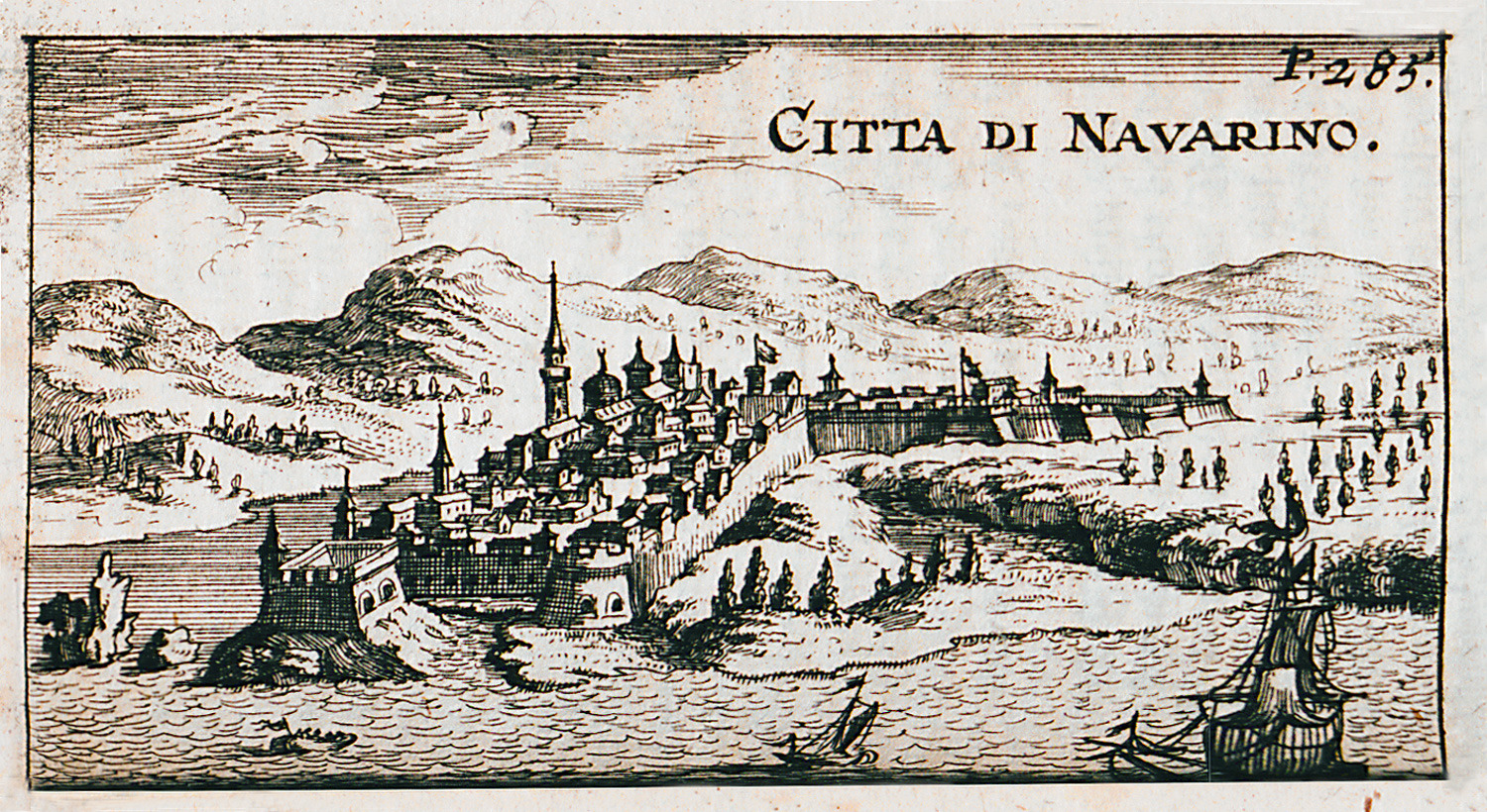 Jacob von Sandrart. Kurtze und vermehrte Beschreibung von dem Ursprung, Aufnehmen, Gebiete und Regierung der weltberühmten Republik Venedig, Nürnberg, Kupfferstechern und Kunst-Händlern, 1687.